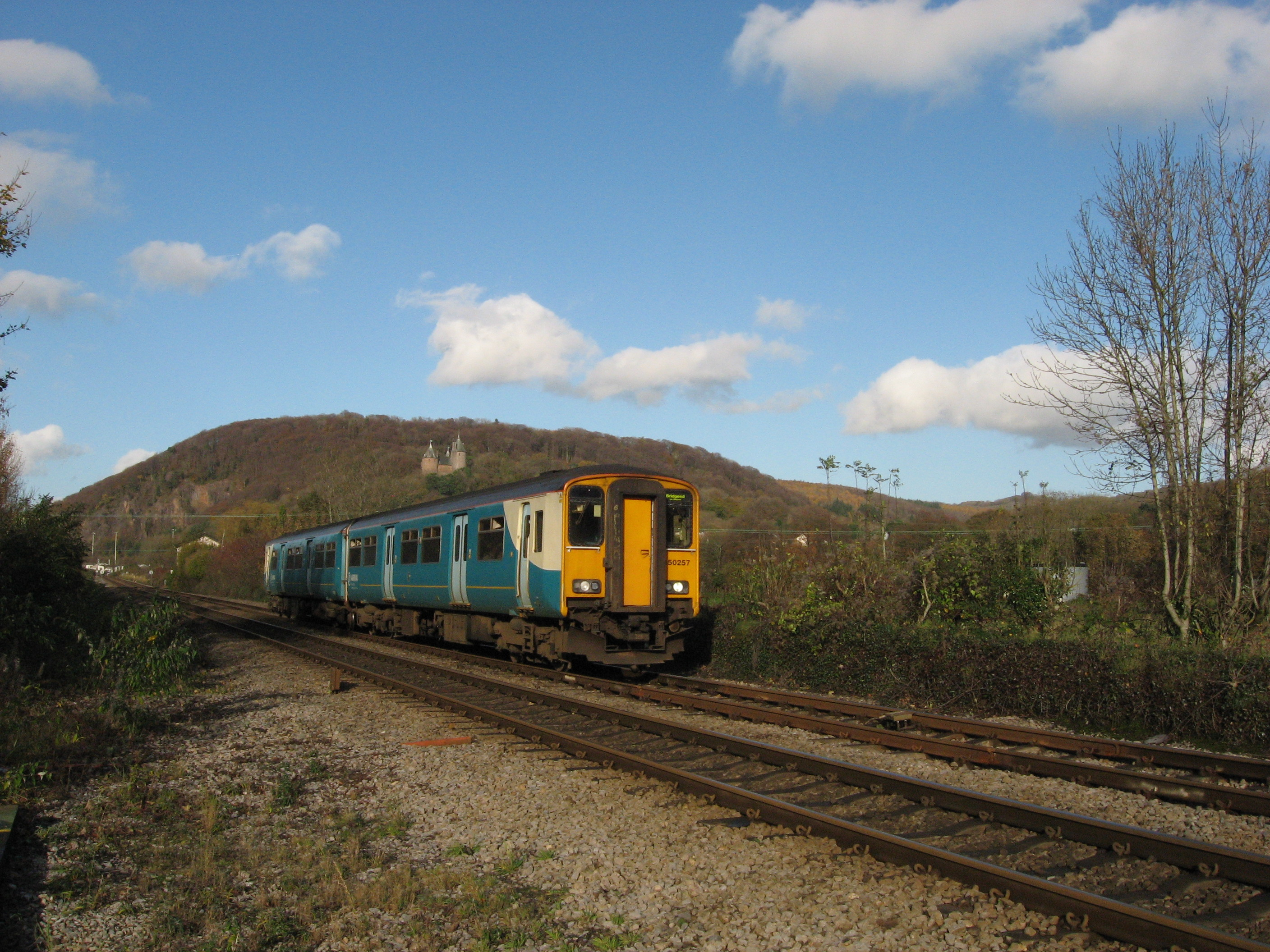 View from Gelynis Crossing. Looking north, towards Castell Coch.